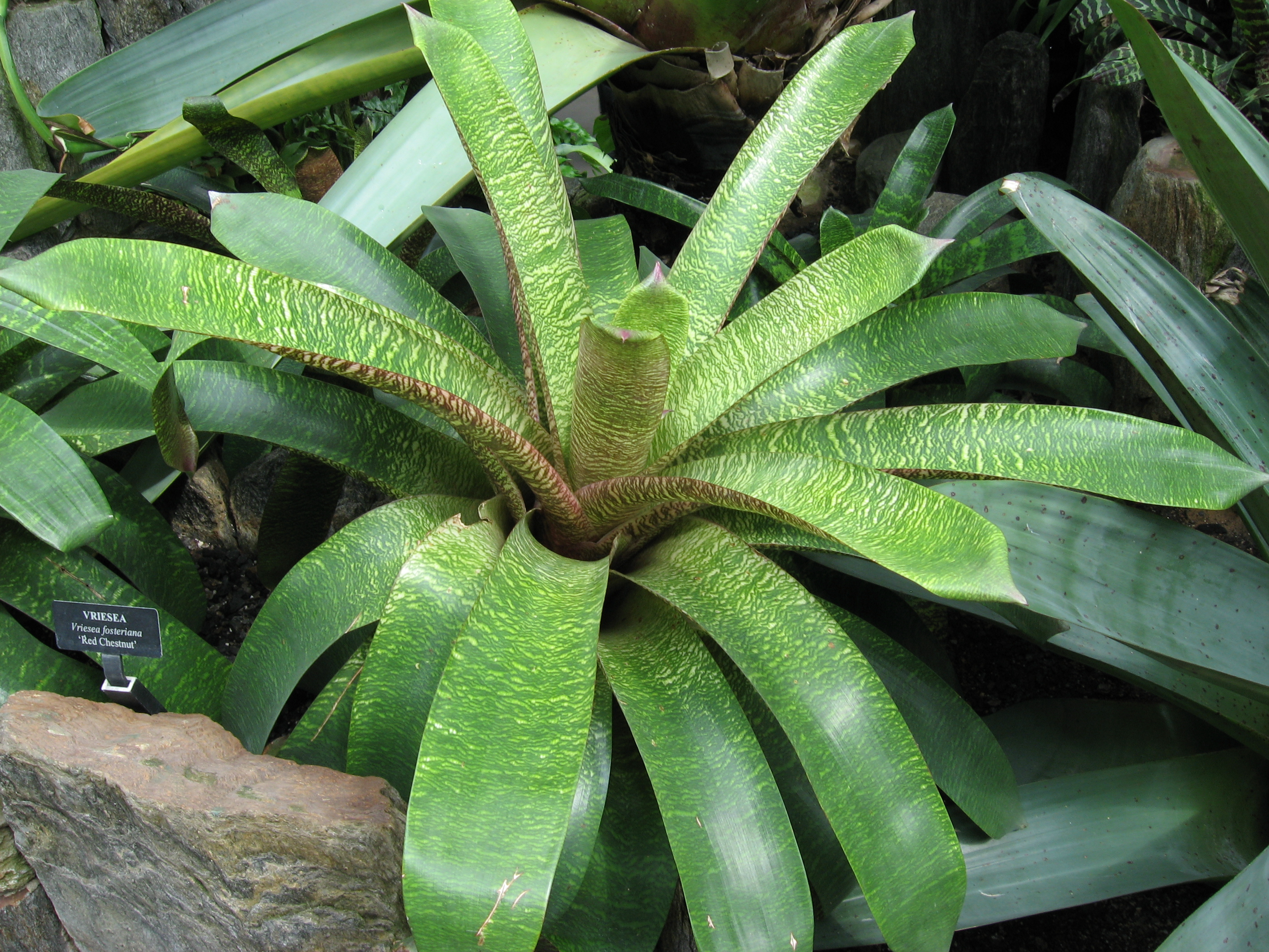 A picture of Vriesea fosteriana 'Red Chestnut'